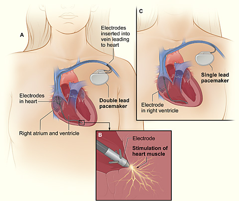 The image shows a cross-section of a chest with a pacemaker. Figure A shows the location and general size of a double-lead, or dual-chamber, pacemaker in the upper chest. The wires with electrodes are inserted into the heart's right atrium and ventricle through a vein in the upper chest. Figure B shows an electrode electrically stimulating the heart muscle. Figure C shows the location and general size of a single-lead, or single-chamber, pacemaker in the upper chest.